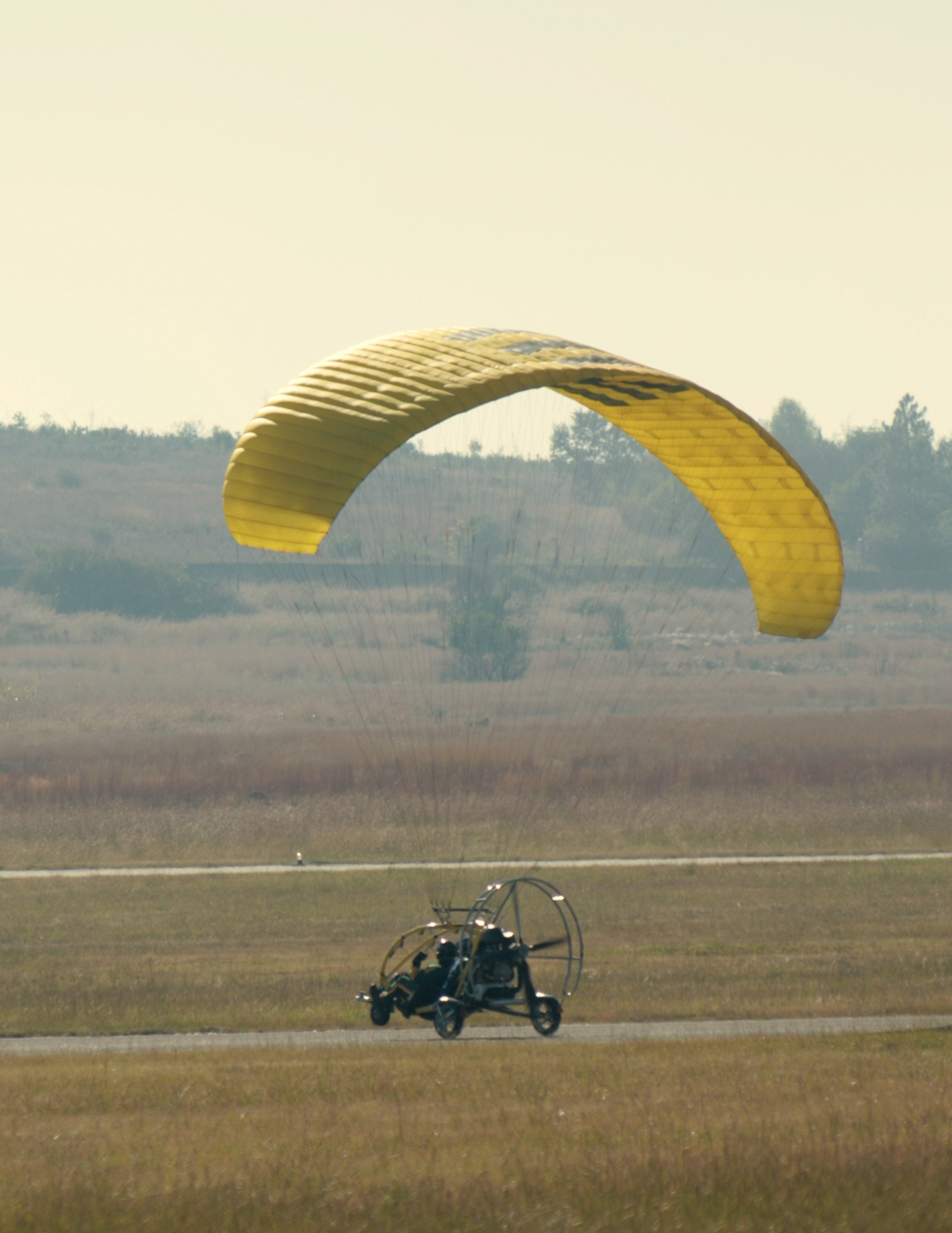 A powered paragliding trike landing